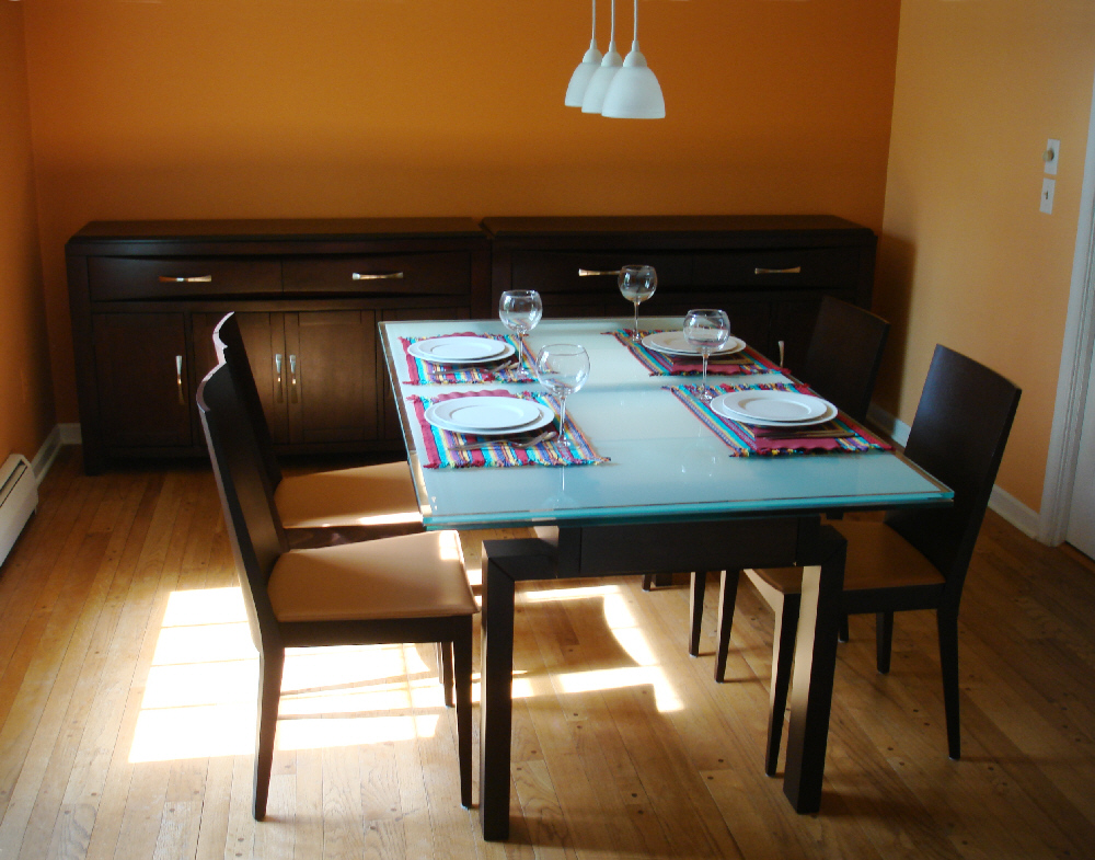 Dining room in a home in the United States